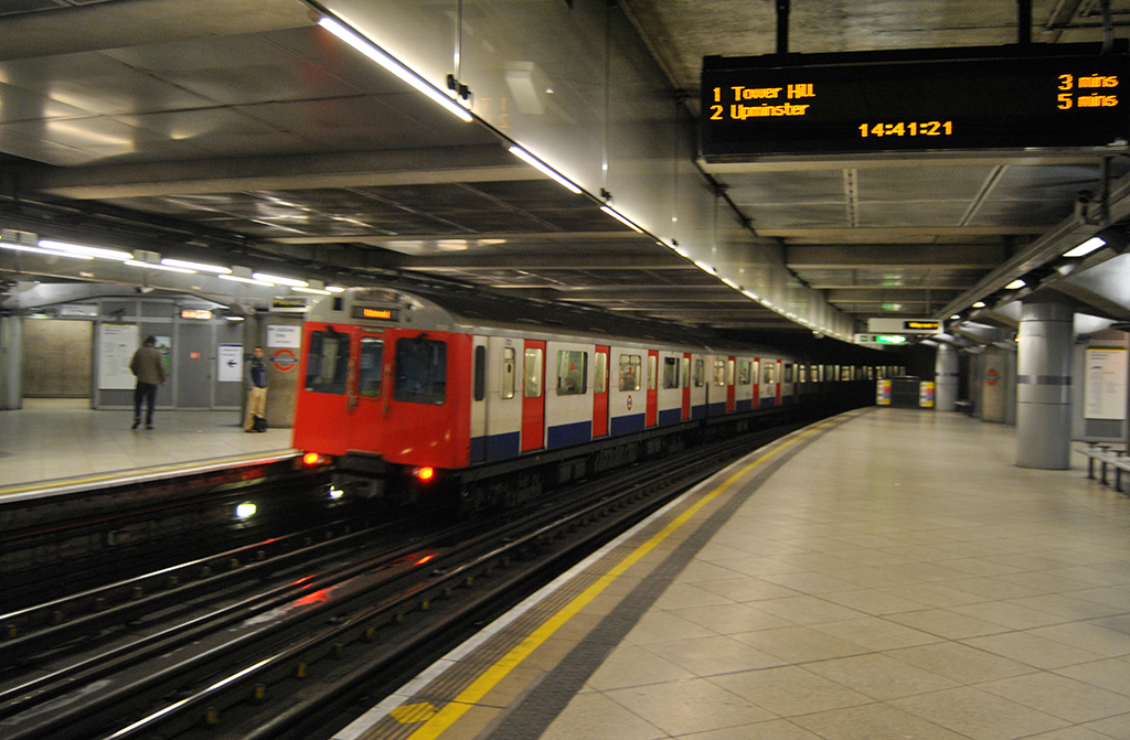 Westminster Tube Station, London, UK